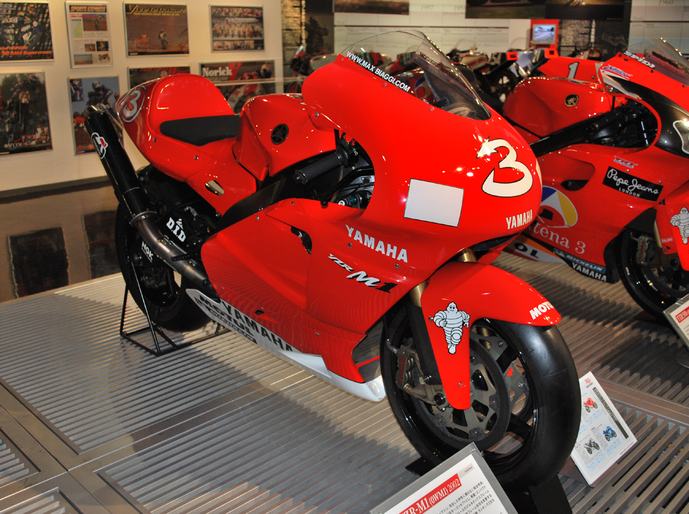 Yamaha YZR-M1 (2002 OWM1, Max Biaggi)